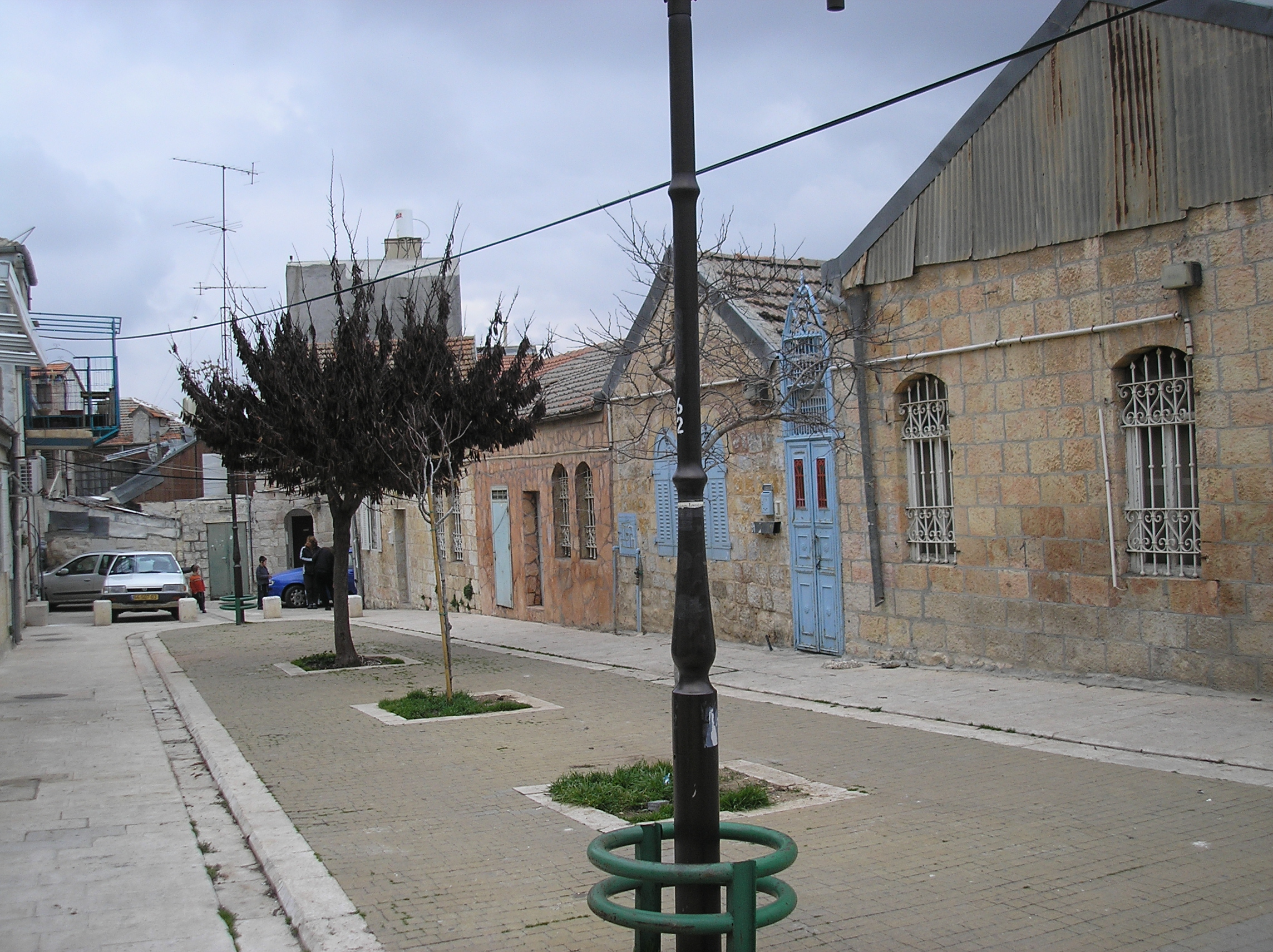 32-38 Zichron Tuvya street in Nahlaot, Jerusalem